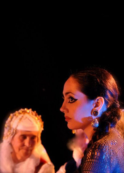 Souzana Vougioukli (right) captured on a musical performance at Prespes, Greece in 2009. In the back, a member of the Chorus.